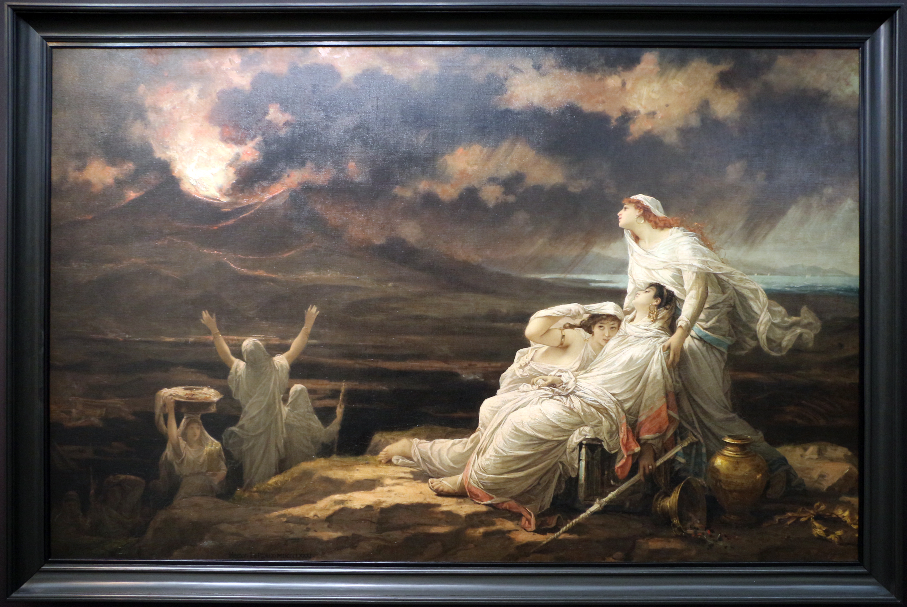 Paintings in Musée d'Orsay